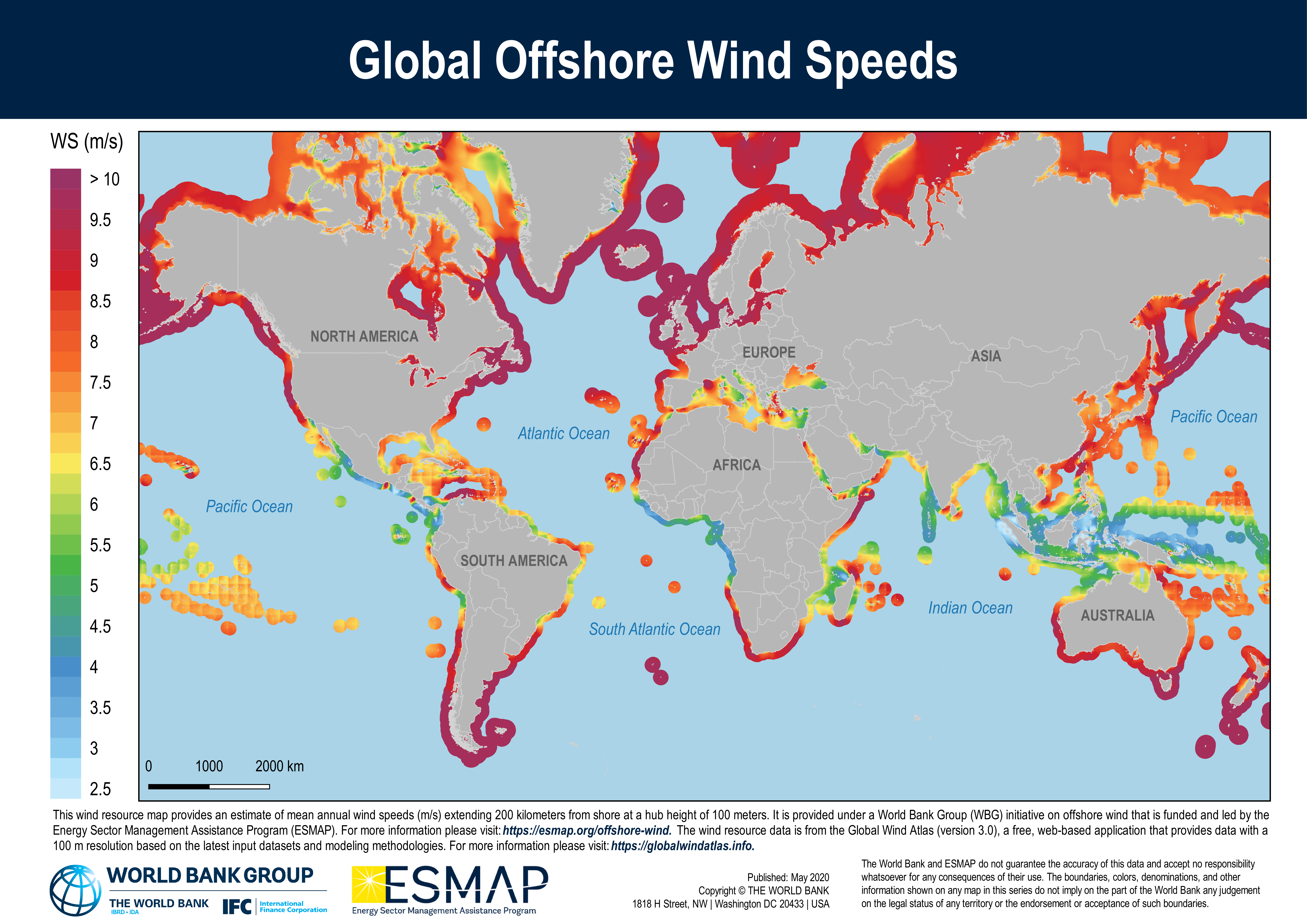 This map shows global average wind speeds up to 200 km from the coastline at 100 m hub height for the purposes of illustrating offshore wind power potential. It was generated using data from the Global Wind Atlas (version 3.0) in May 2020 by the World Bank Group. For further details: and